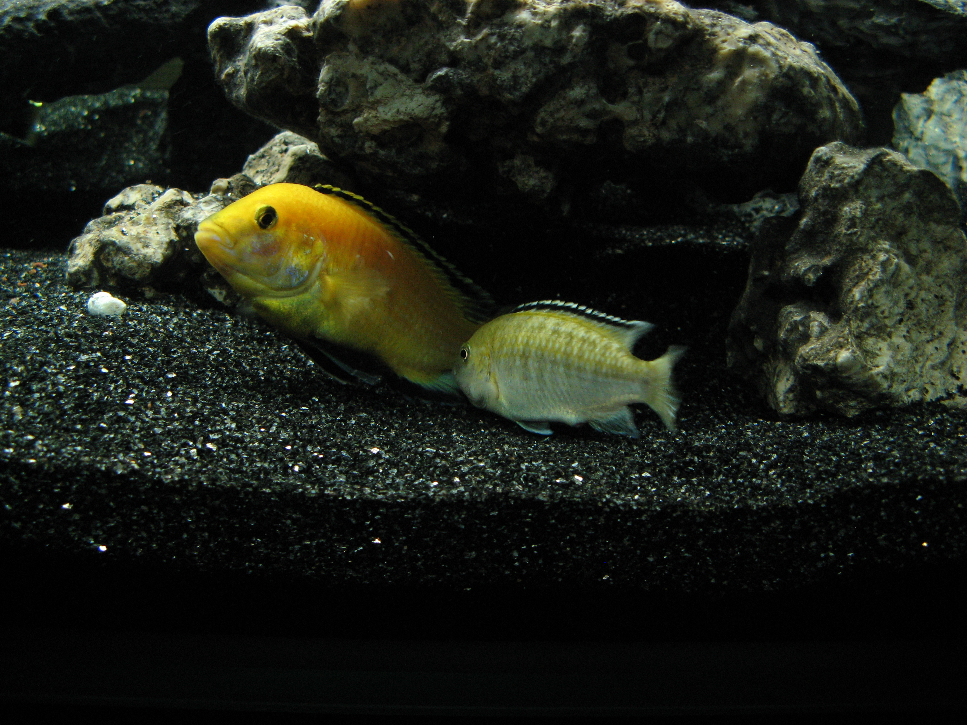 Labidochromis caeruleus